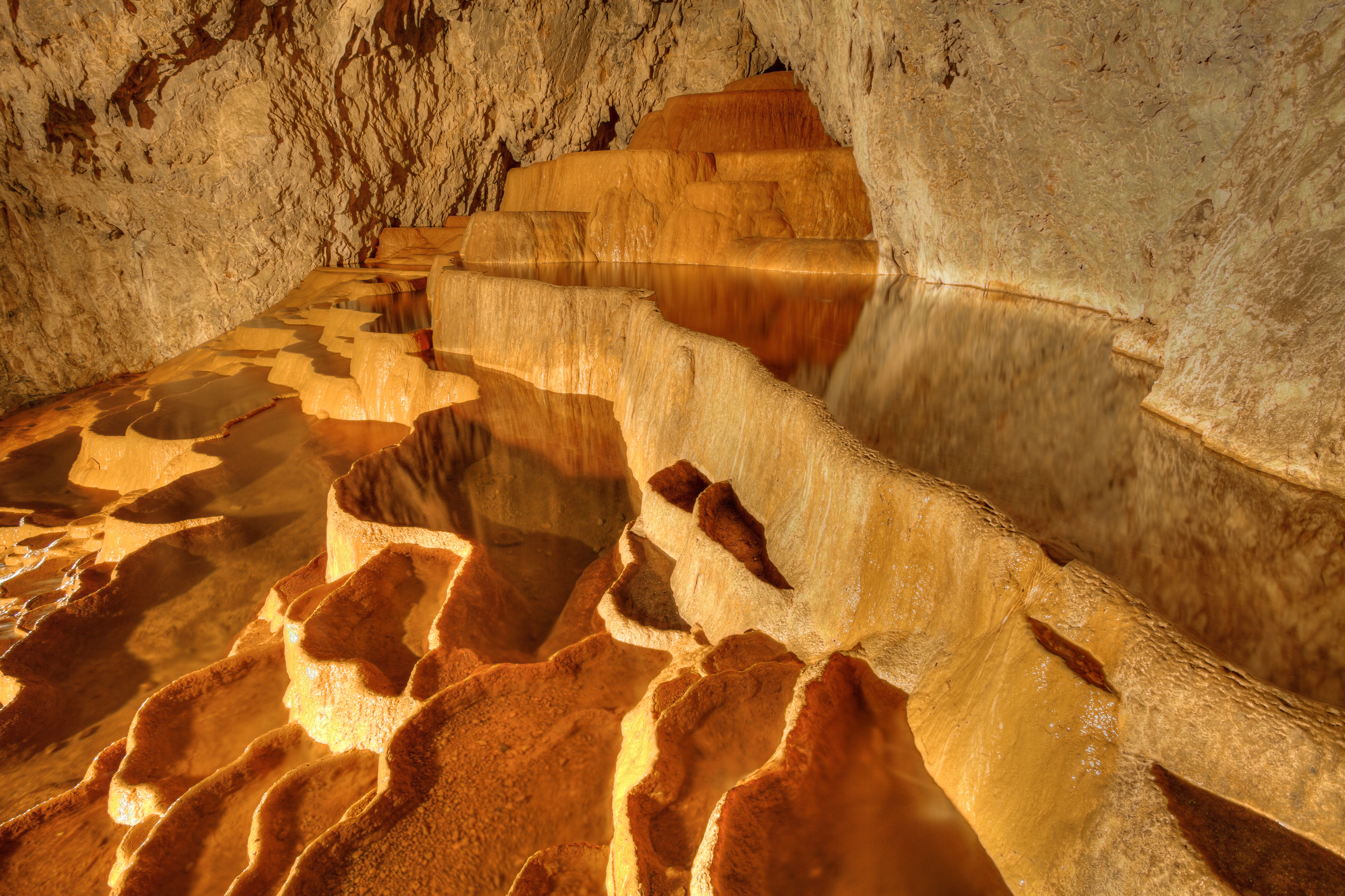 Stopića cave is a limestone cave near Sirogojno, on the slopes of Mount Zlatibor in the Dinaric Alps, in western Serbia.